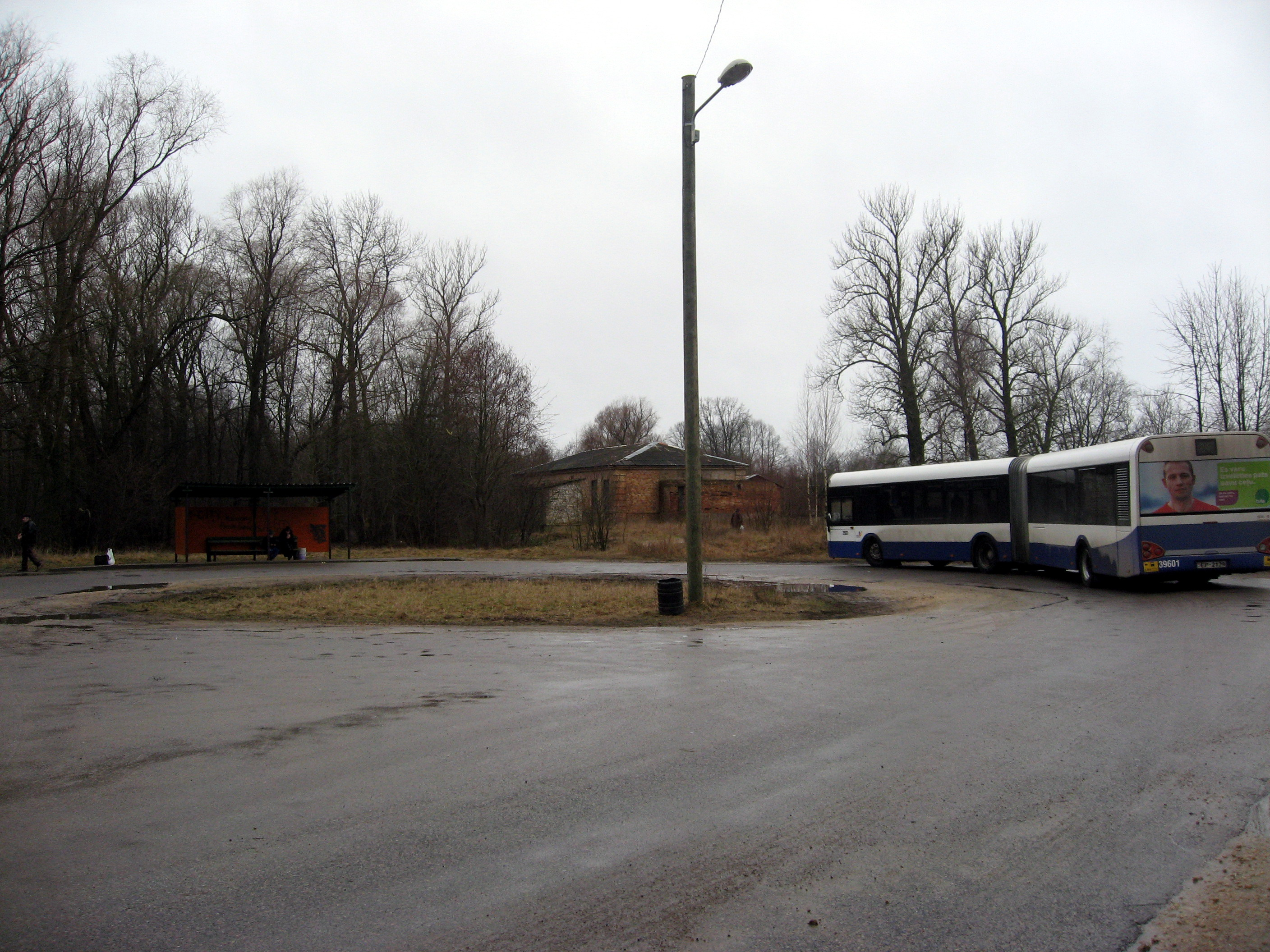 Solaris Urbino 18 bus (#39601, from 2009 - #79601) in Riga, Latvija. Built 2002, SIA Rīgas Satiksme operator.